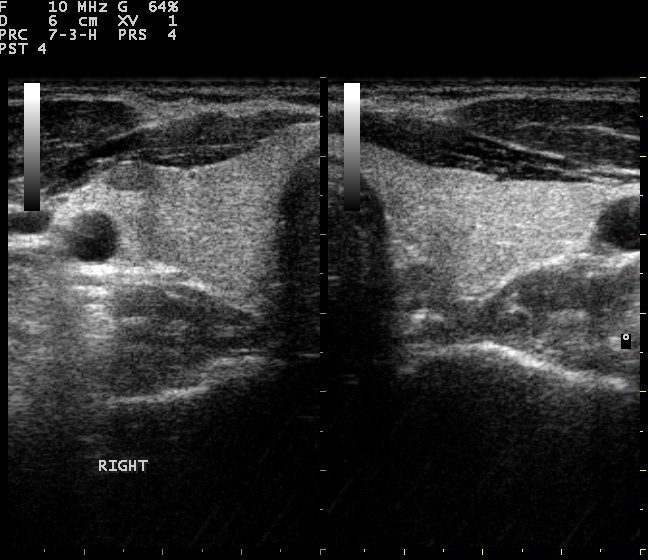 Transverse ultrasound through the thyroid gland